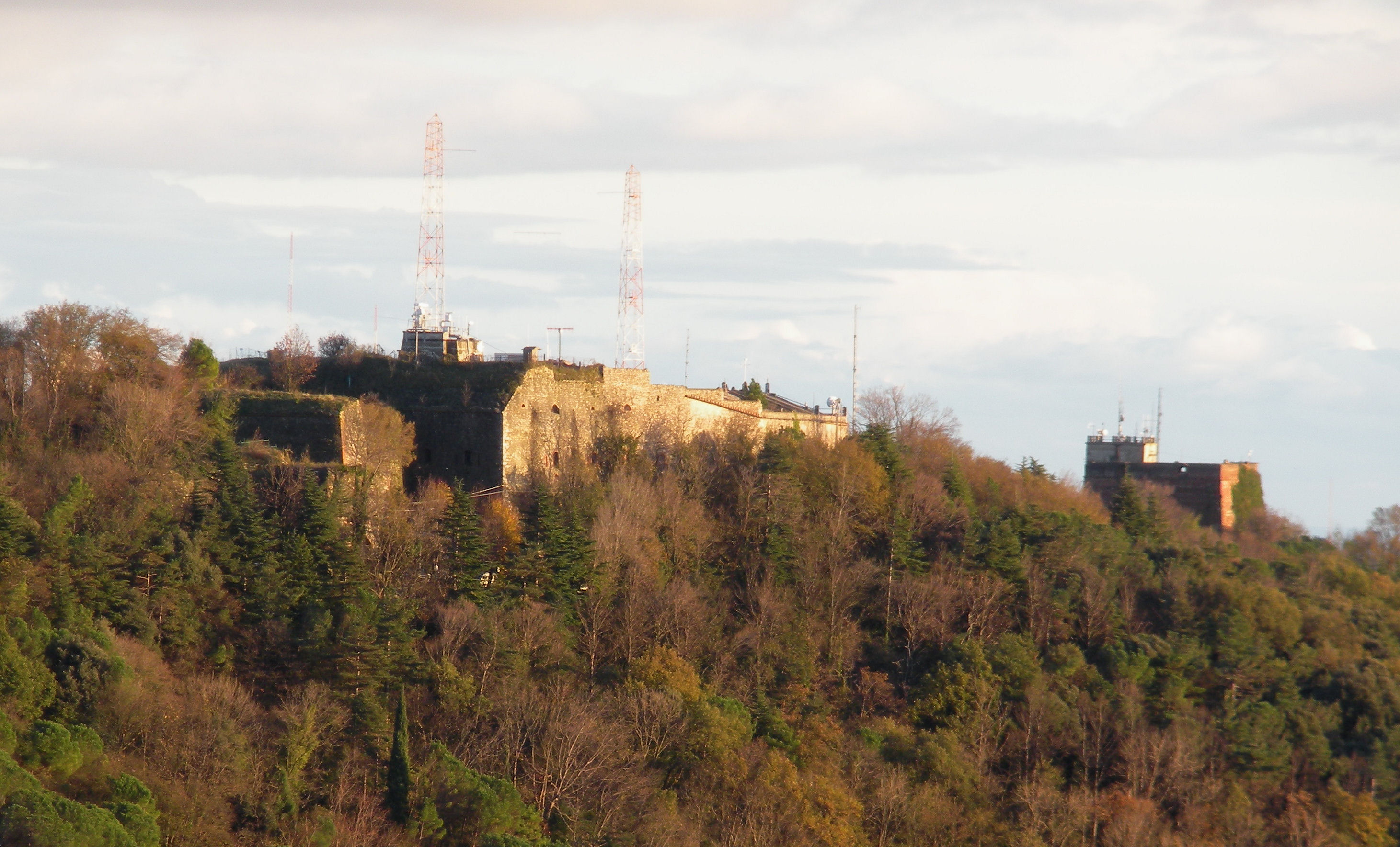 Genoa (Italy), Fort Castellaccio and Tower Specola viewed from Peralto Park